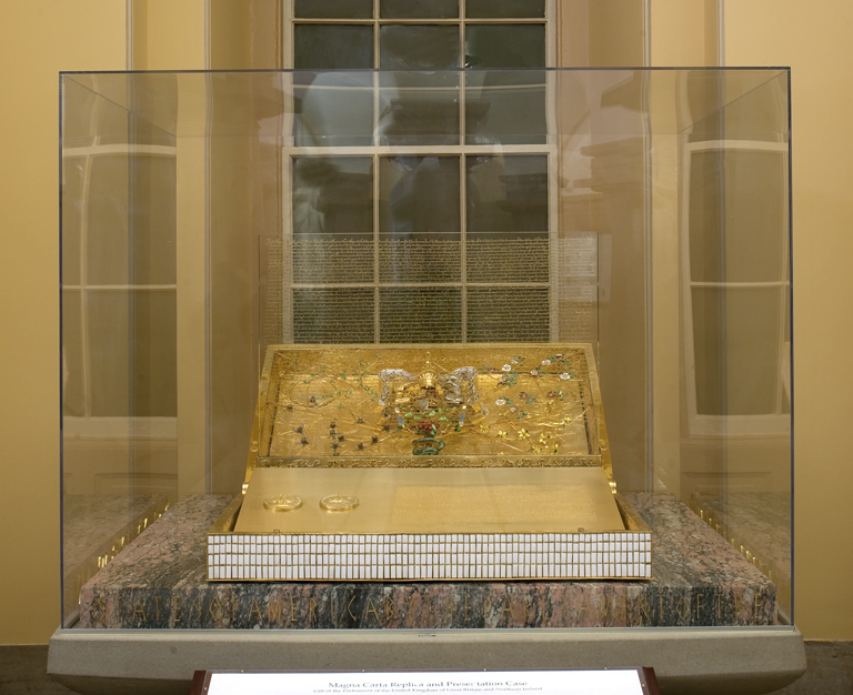 Replica of the Magna Carta given to the US Congress by the UK Parliament in 1976.